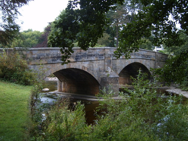 Bridge over the River Greta. The bridge is just South of Burton in Lonsdale.